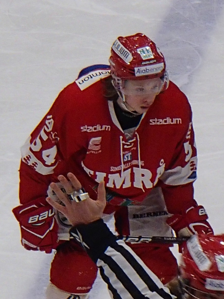 Ice hockey player Jonathan Dahlén of Timrå IK in NHK Arena, Timrå, Sweden